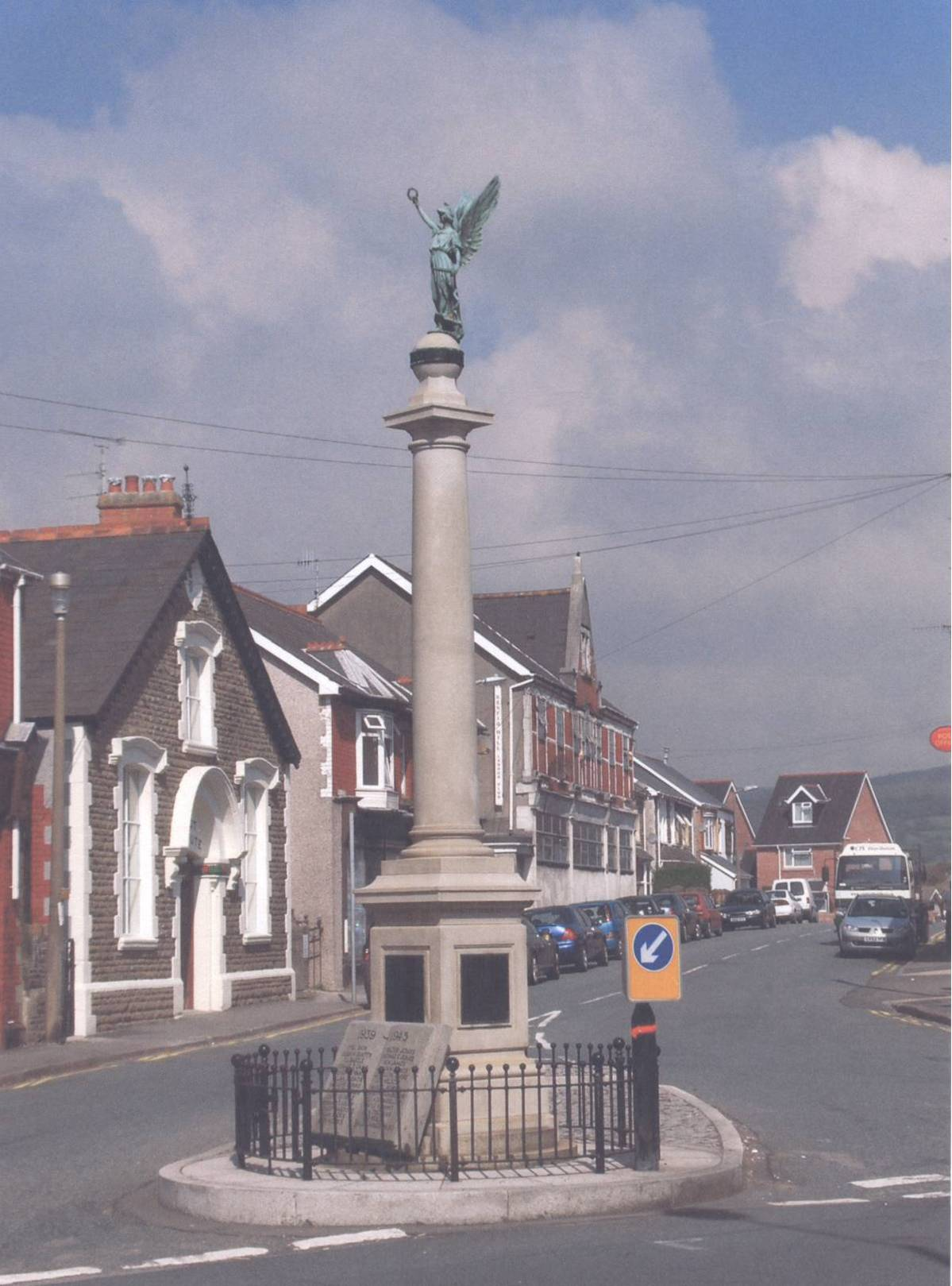 Memorial to those from the area who died in WW2. Kenfig Hill (looking down Prince Road), Bridgend County Borough, Wales.